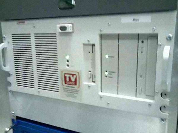 Picture of TV Guide Channel (now TV Guide Network) hardware (WinNT based custom PC build) built by Compaq used for the TV Guide Network on US cable and satellite television services.